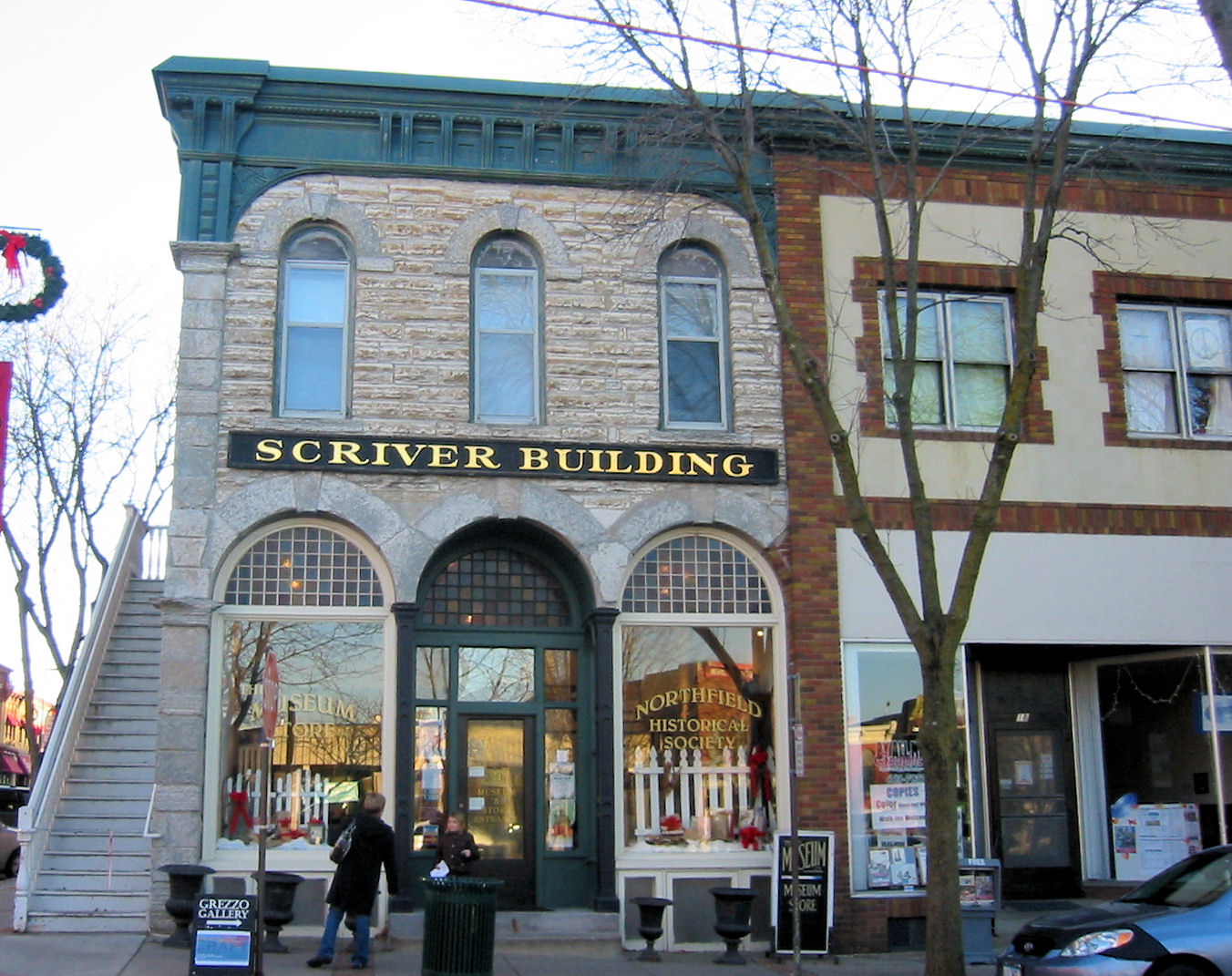 Scriver Block Building in Northfield, Minnesota. This housed the First National Bank robbed by the James-Younger Gang on September 7, 1876.